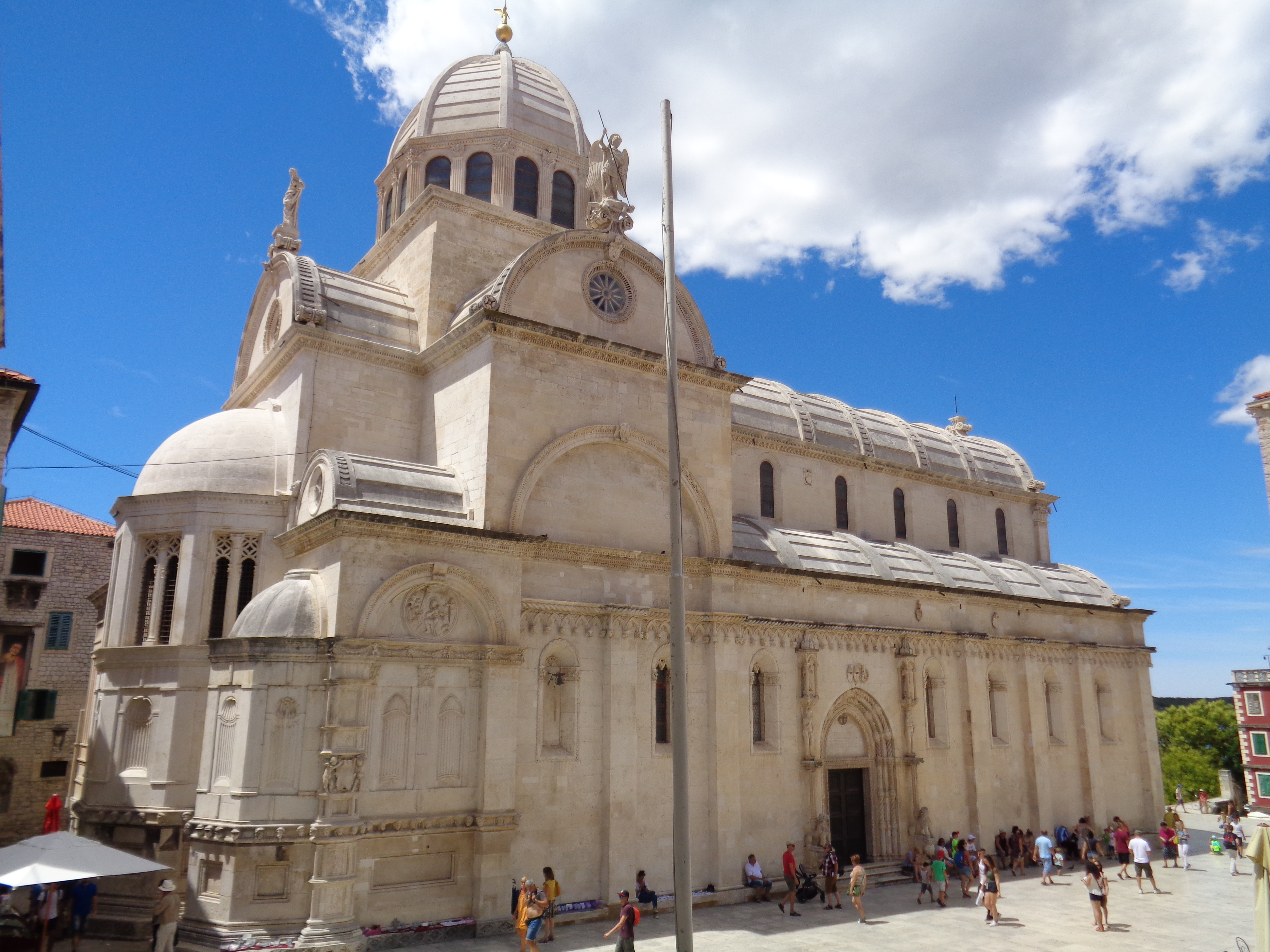 Cathedral of Saint James in Šibenik, Šibenik-Knin County, Croatia - northeast view